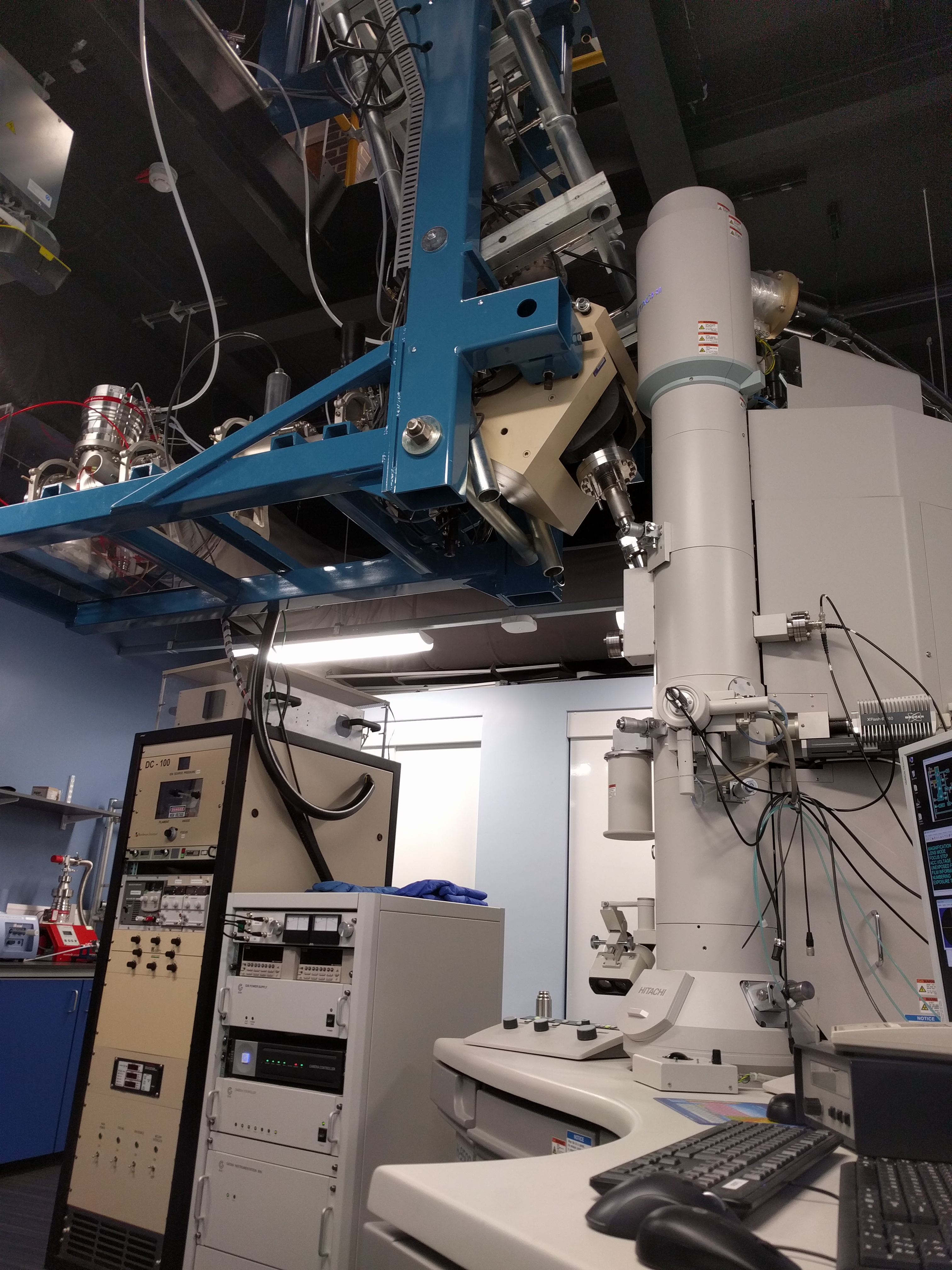 The MIAMI-2 system at the University of Huddersfield, showing the TEM (Hitachi H-9500) with in-situ ion irradiation system.